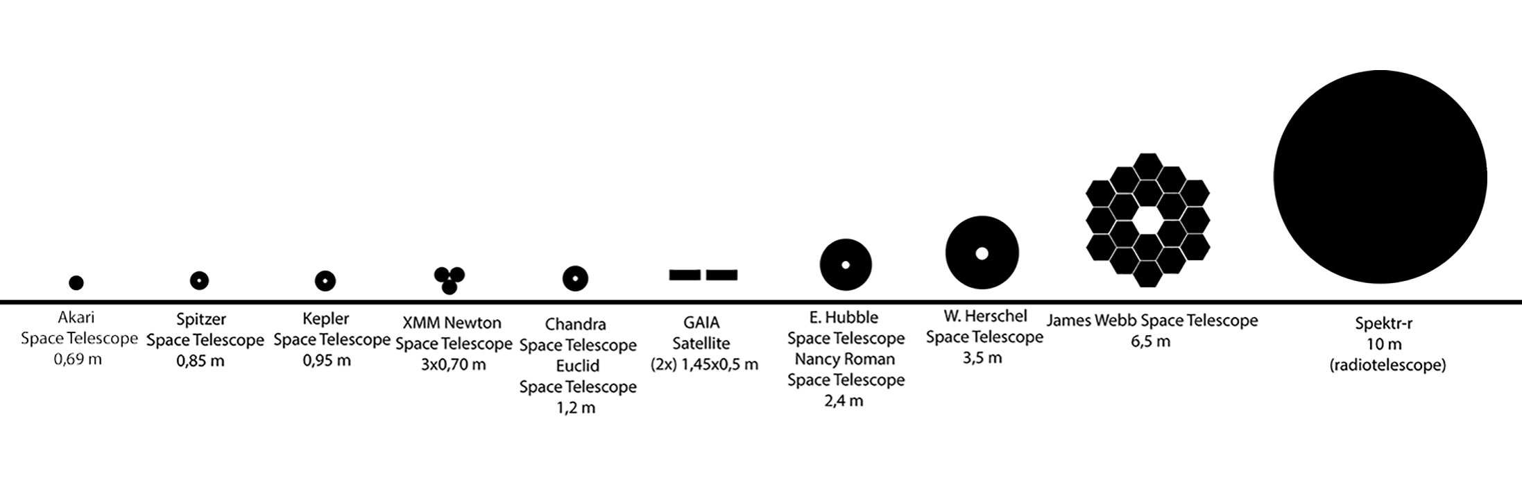 A space telescopes comparison by diameters.